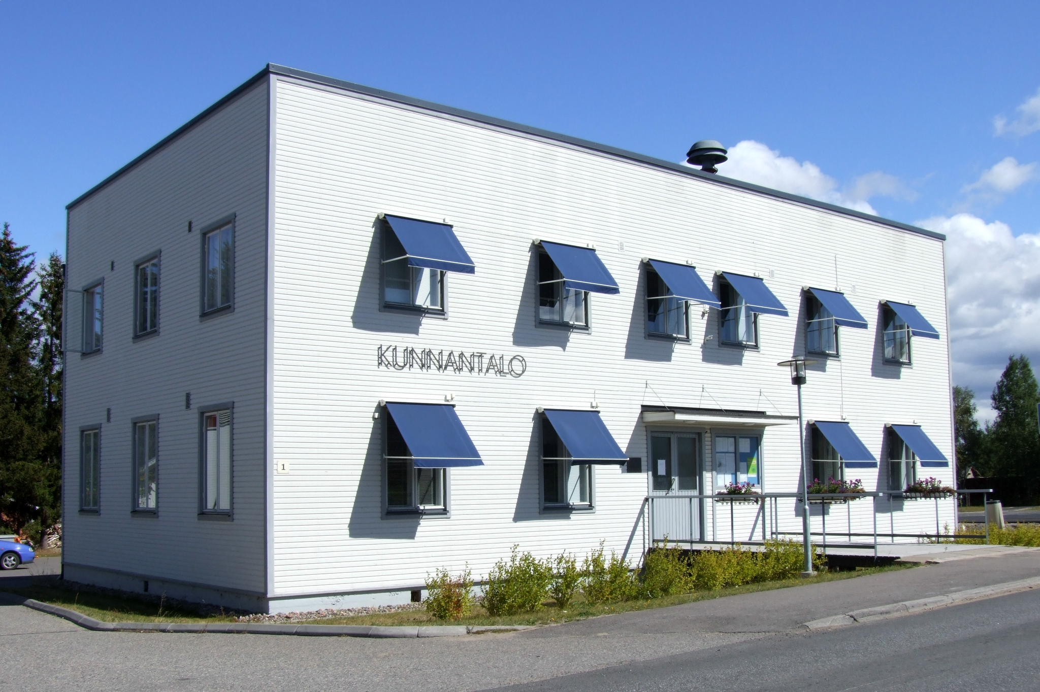 The town hall of Lumijoki municipality was built in 1938 and it is a rare representative of wooden functionalism. The architect is not known.